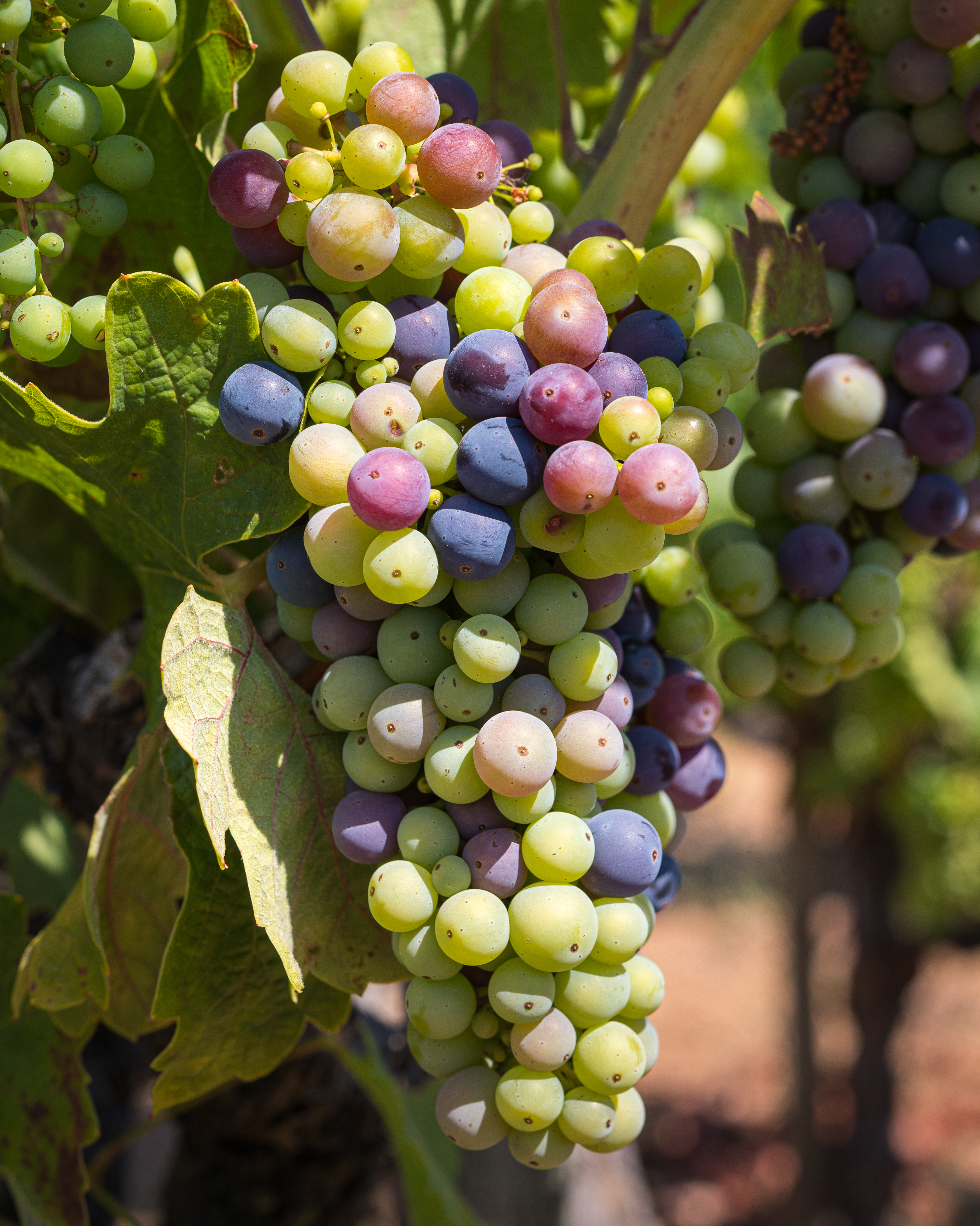 Veraison (the onset of ripening) of Zinfandel grapes in Dry Creek Valley, Sonoma County, California